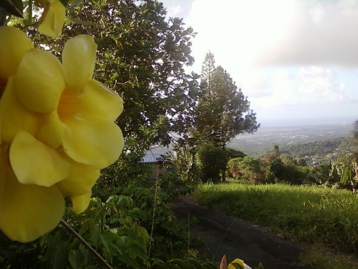 Is a Beautfifull Palma Sola.